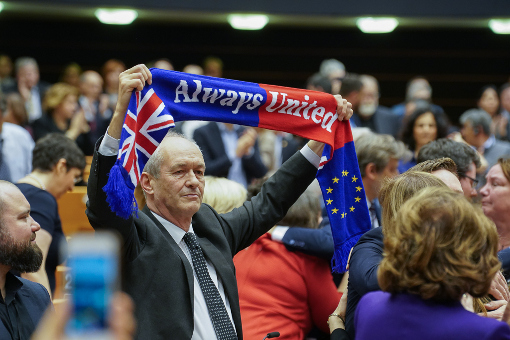 Watch our Top Story collection about the Brexit here: These photos are free to use under Creative Commons license CC-BY-4.0 and must be credited: "CC-BY-4.0: © European Union 2020 – Source: EP". No model release form if applicable. For bigger HR files please contact: photobookings(AT)